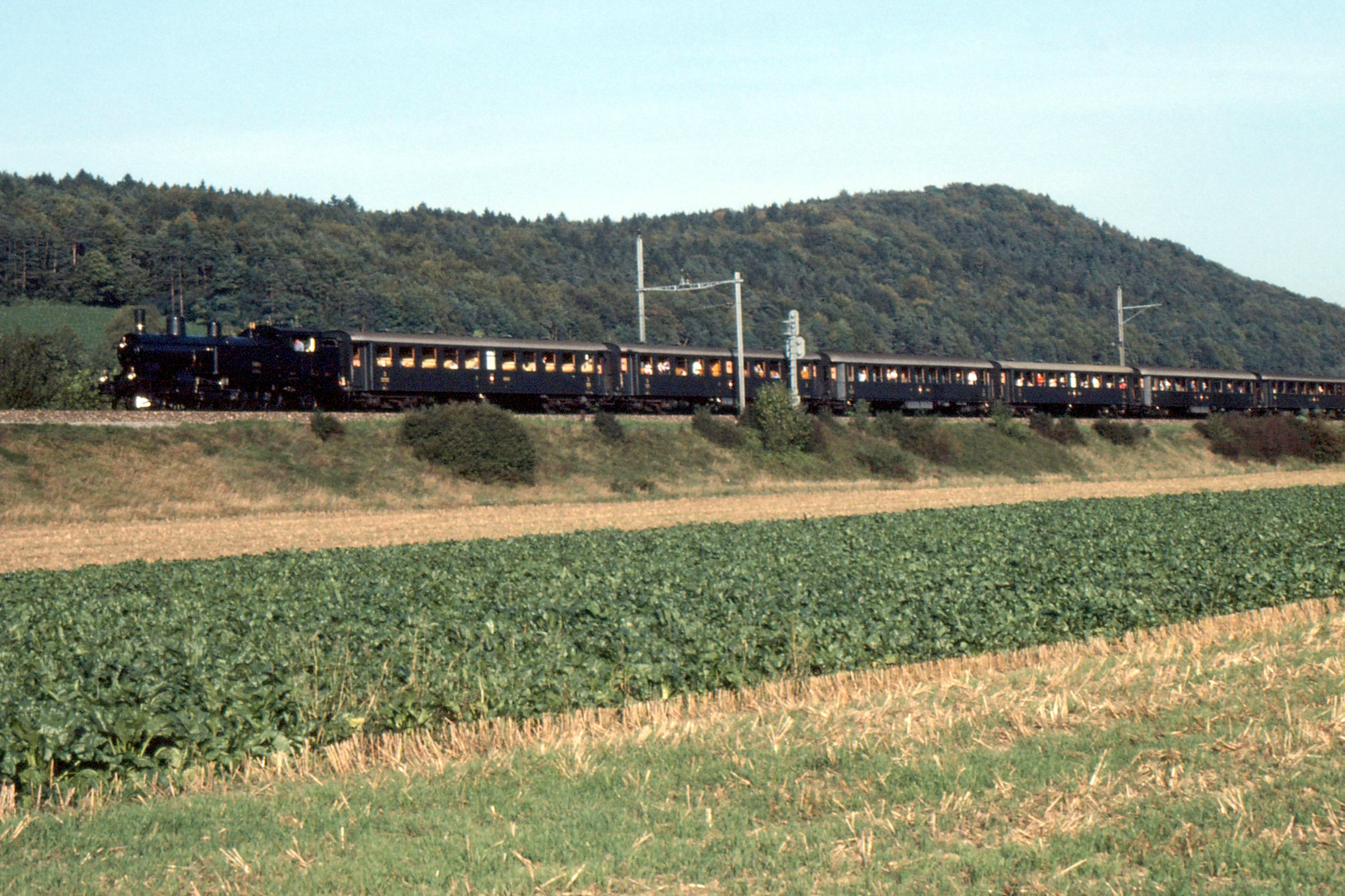 Swiss Steam Eb 3/5 5819